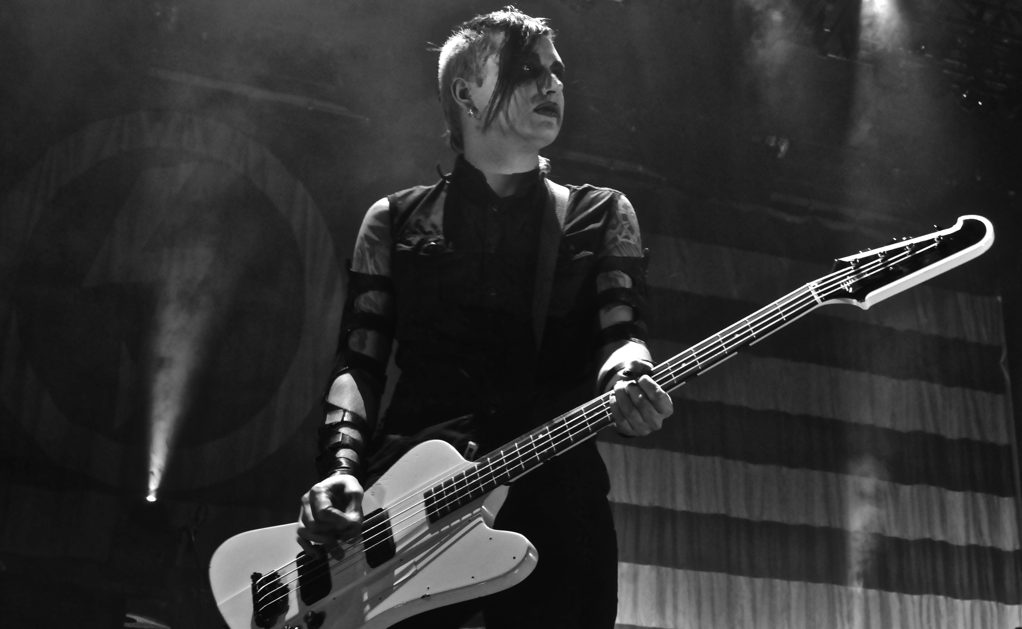 Andy Gerold performing bass for Marilyn Manson at Mayhem Festival 2009.